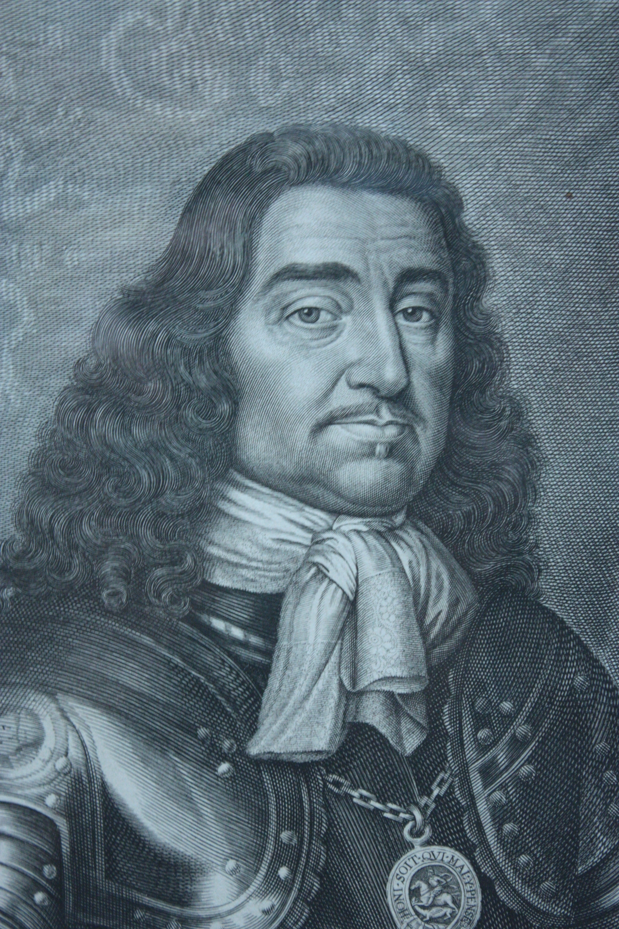 General Monck (1608-1670)